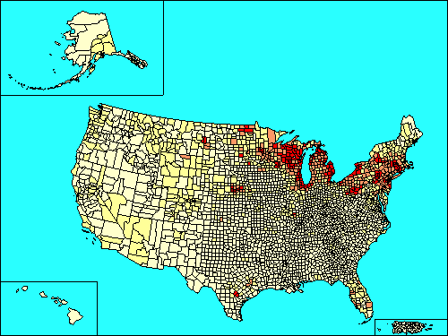 Distribution of Polish Americans according to the 2000 census